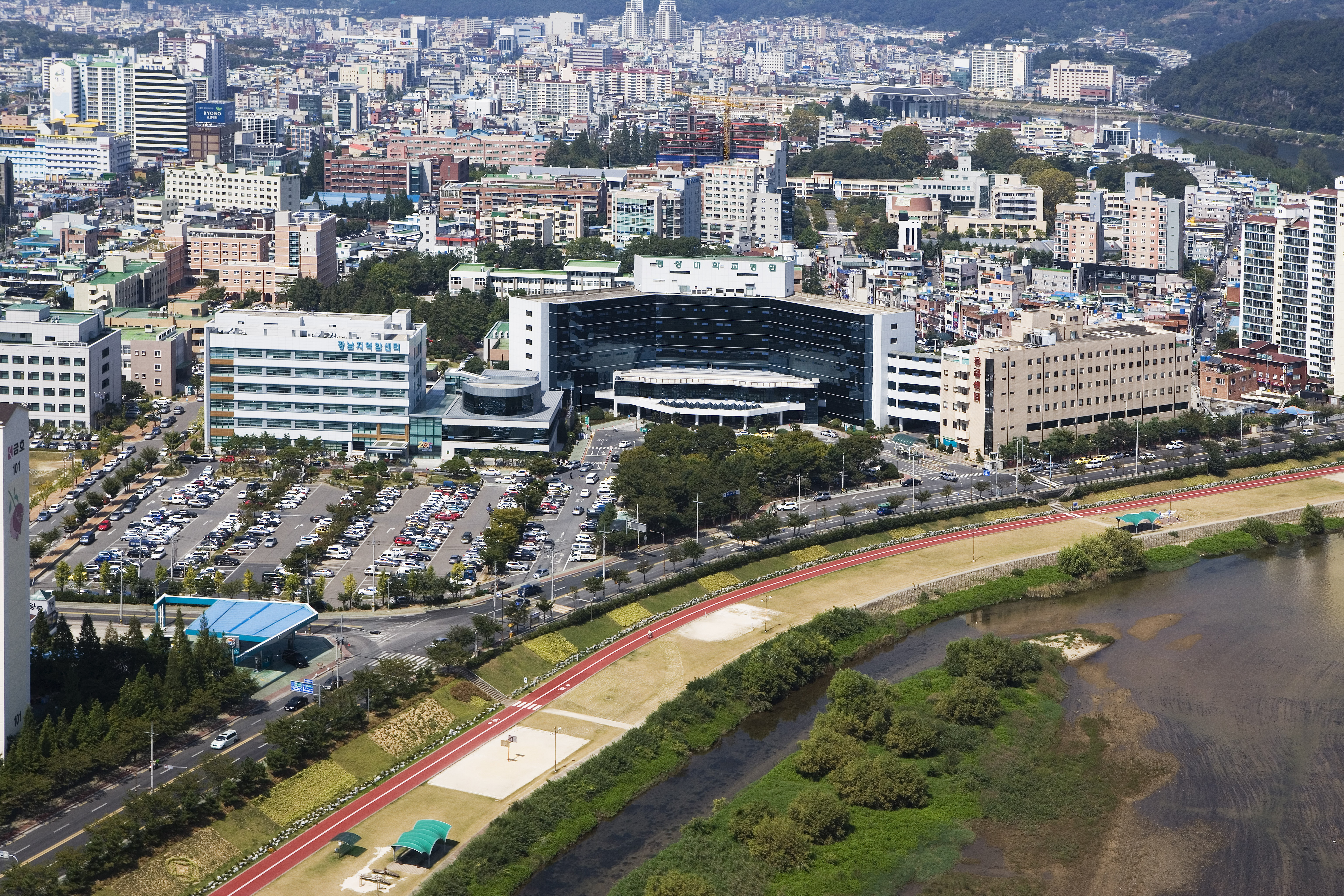 칠암캠퍼스 항공촬영